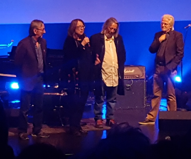 Harmonium photographed in Montréal, Québec, Canada at the Outremont Theatre.